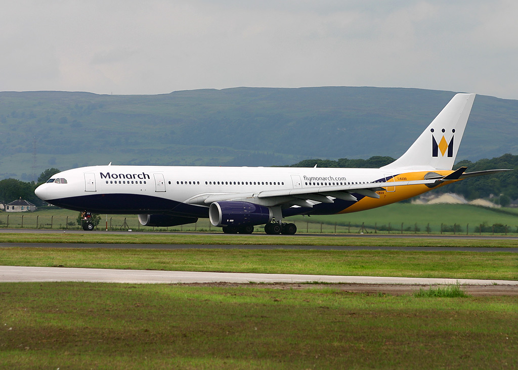 Monarch Airlines Airbus A330-200 at Glasgow International Airport, Scotland